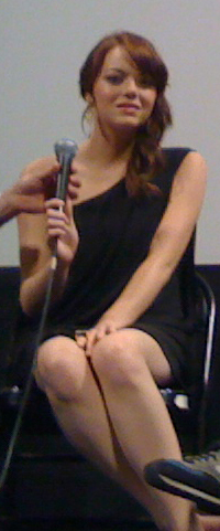 Actress Emma Stone at the Paramount Theatre in Austin, Texas, USA, promoting the film Zombieland.